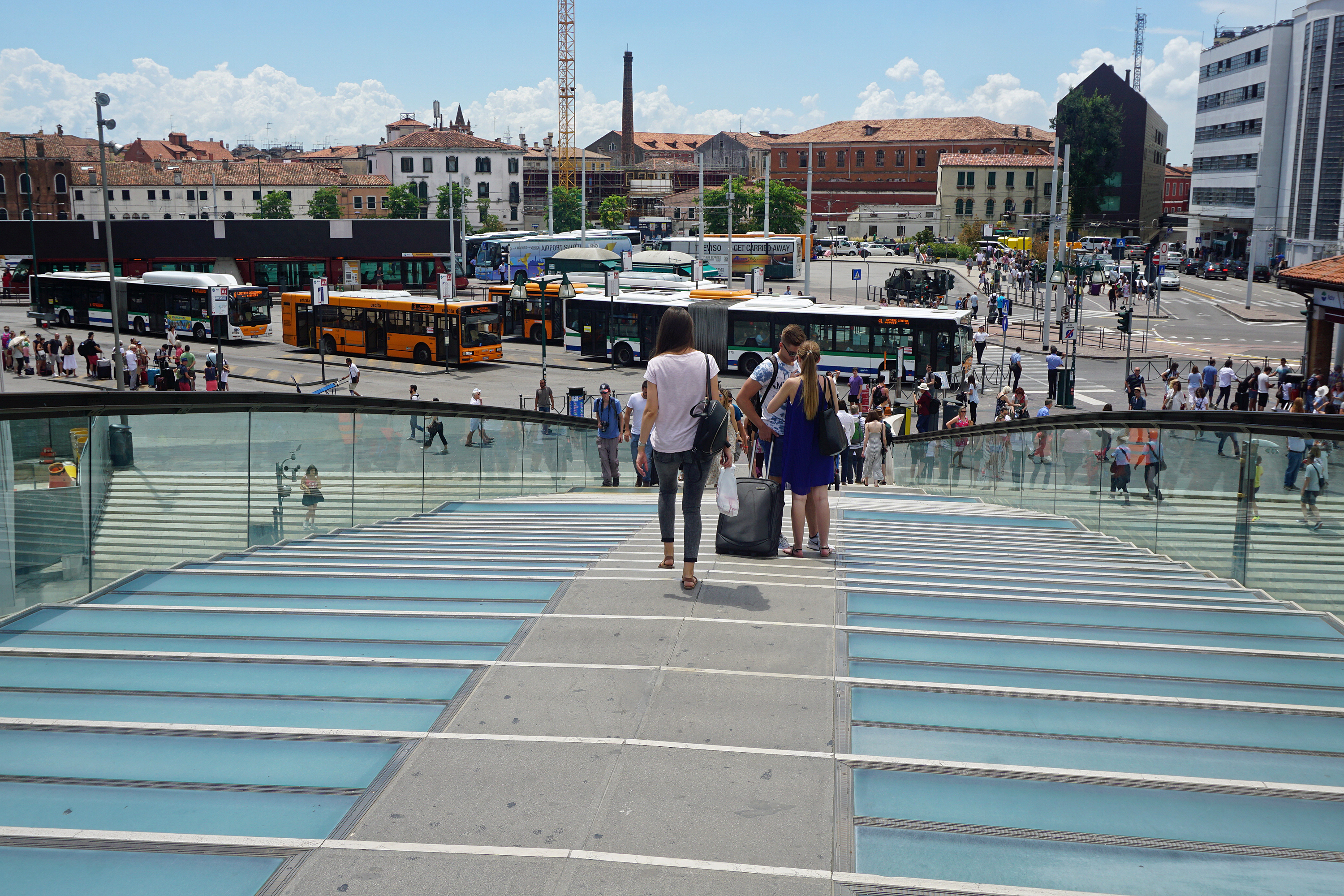 Piazzale Rome from the steps of Ponte della Costituzione, Venice, Italy